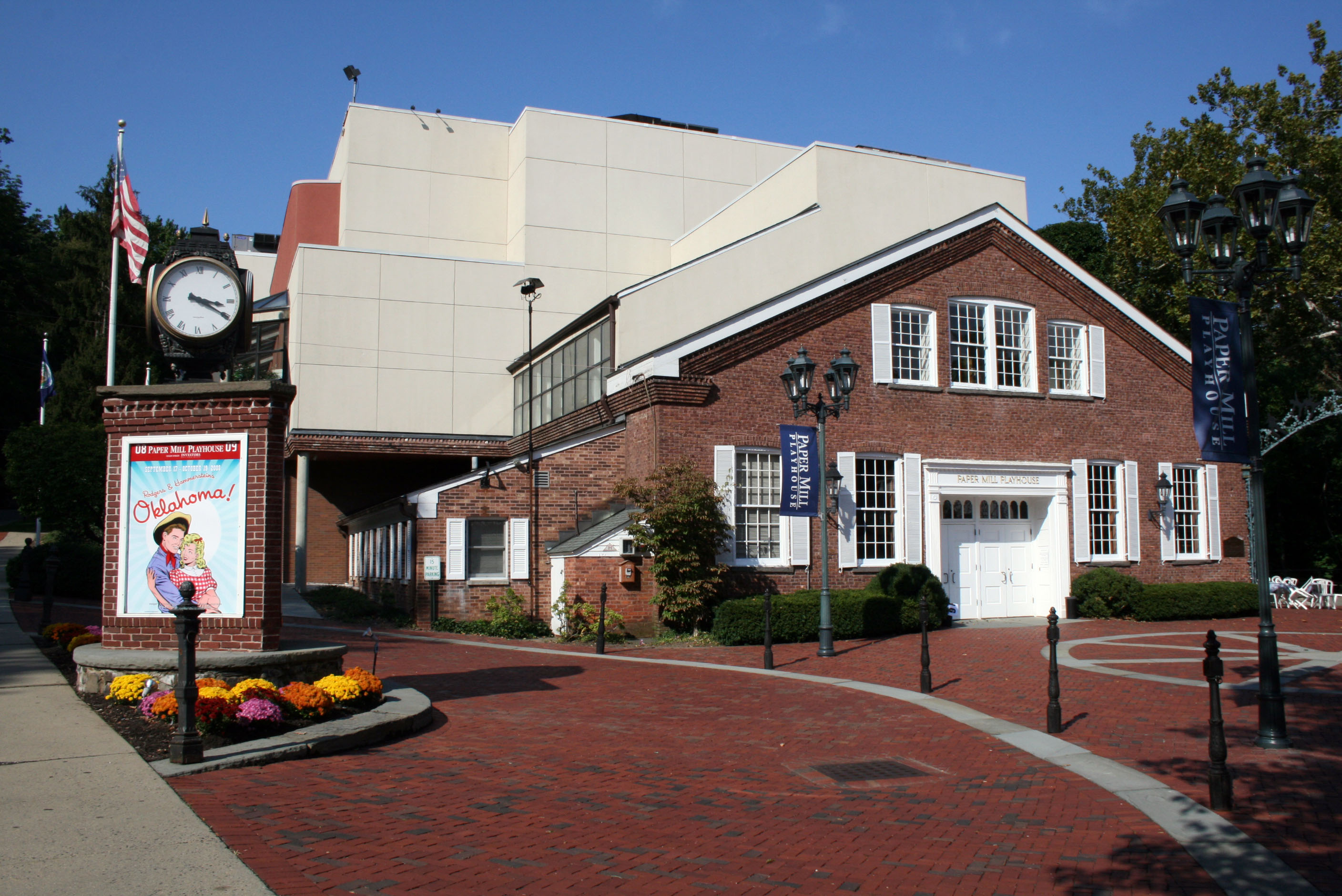 Entrance to the Paper Mill Playhouse, a theatre in Millburn, NJ.